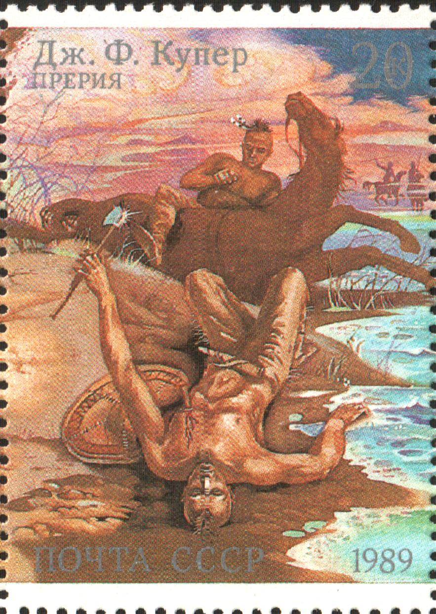 A USSR stamp